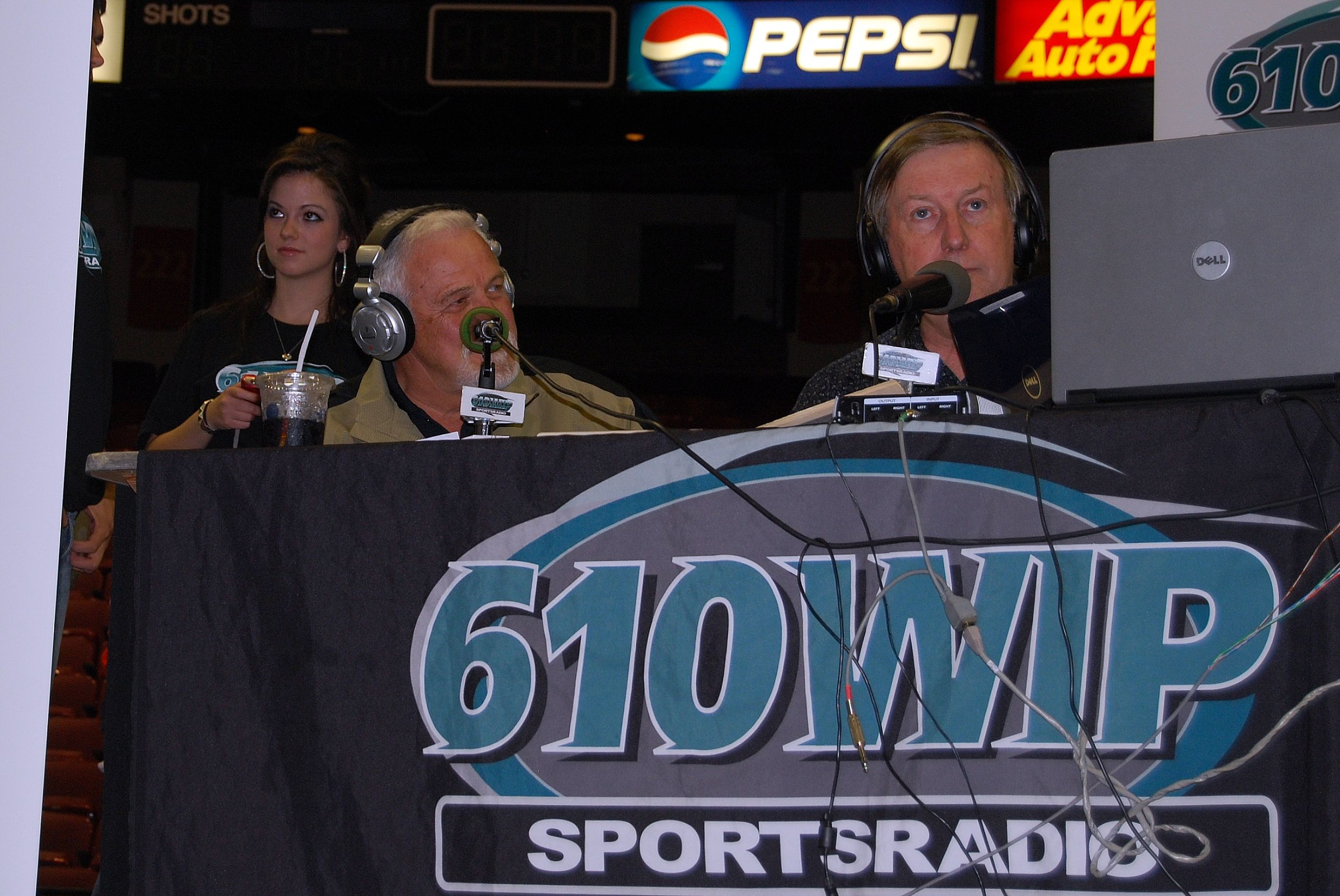 Bernie chats with Ray and Glen (sorry Glen, you didn't fit in the picture)